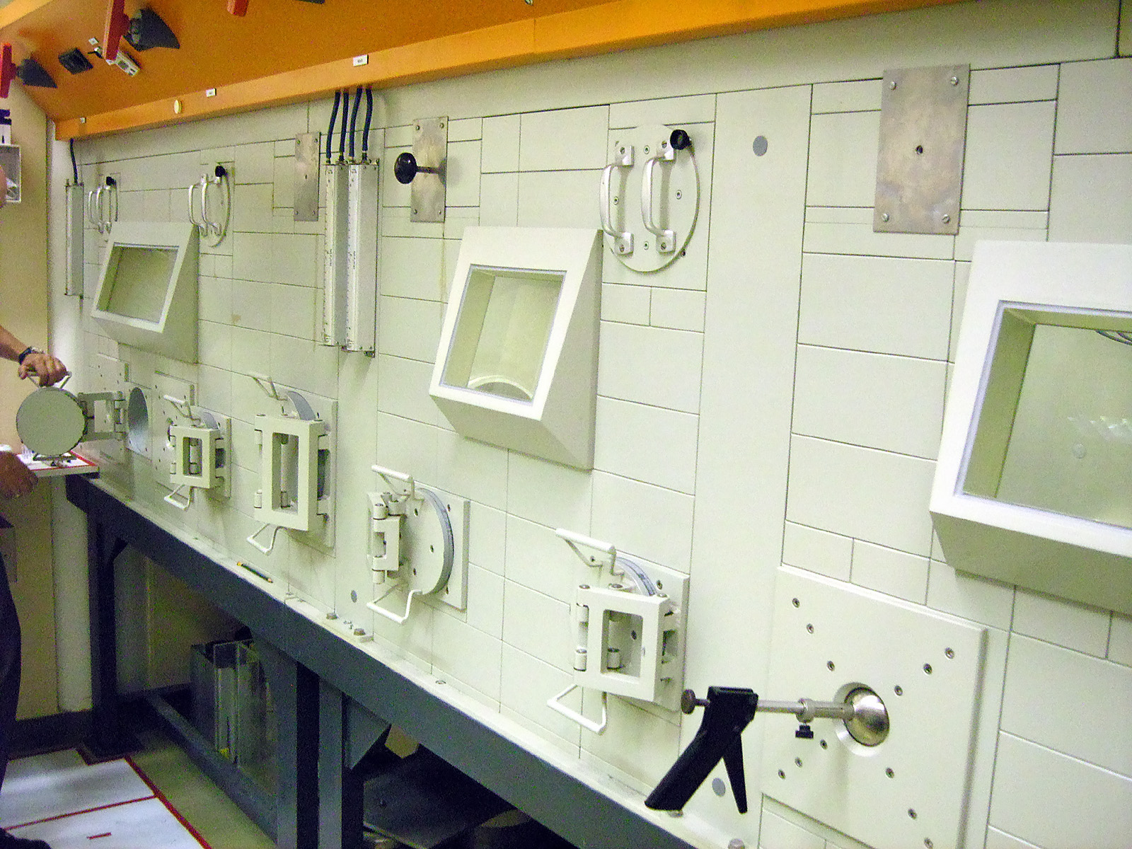 Hot cell at the University of Heidelberg, Nuclear Medicine.